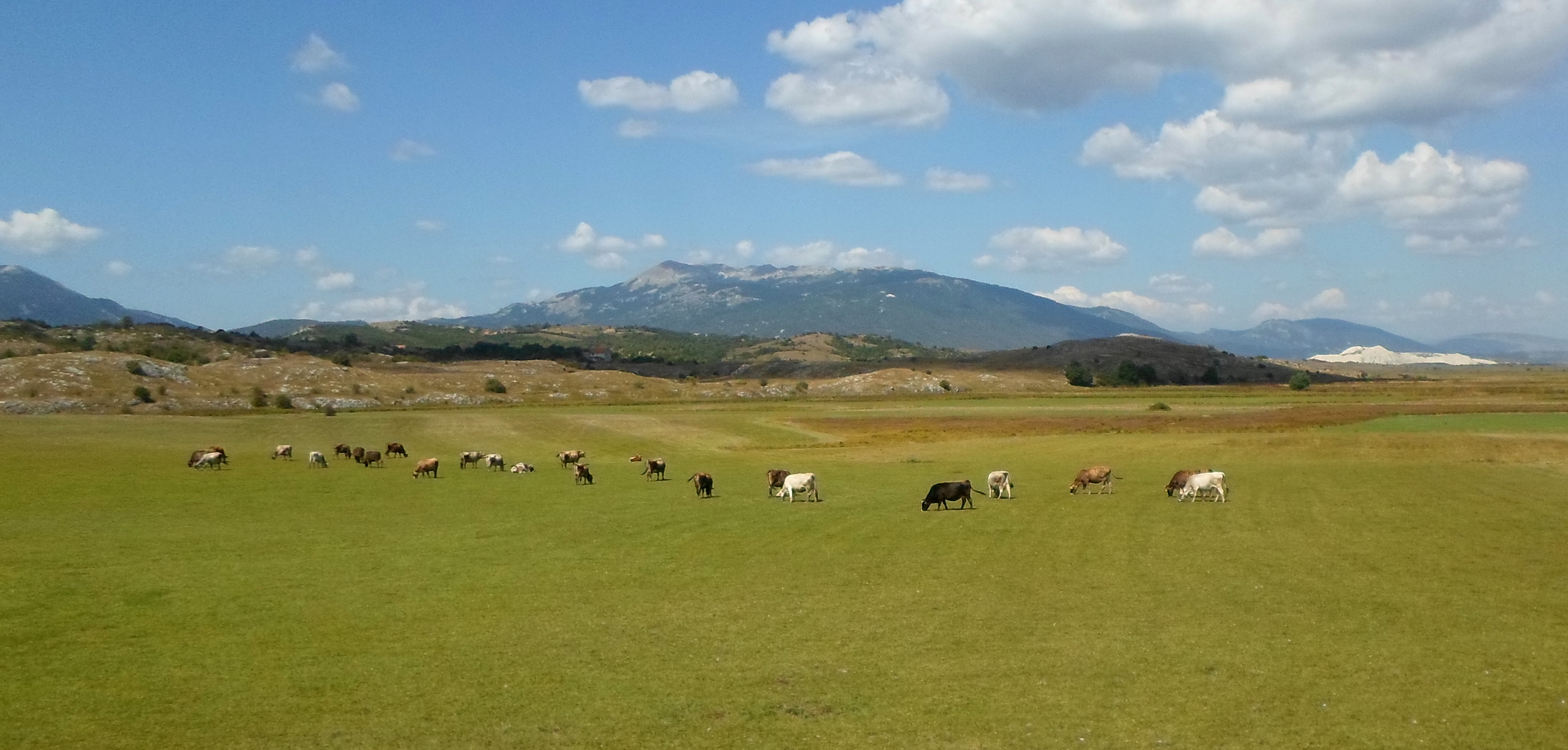 This image was uploaded as part of Trace of Soul 2016.